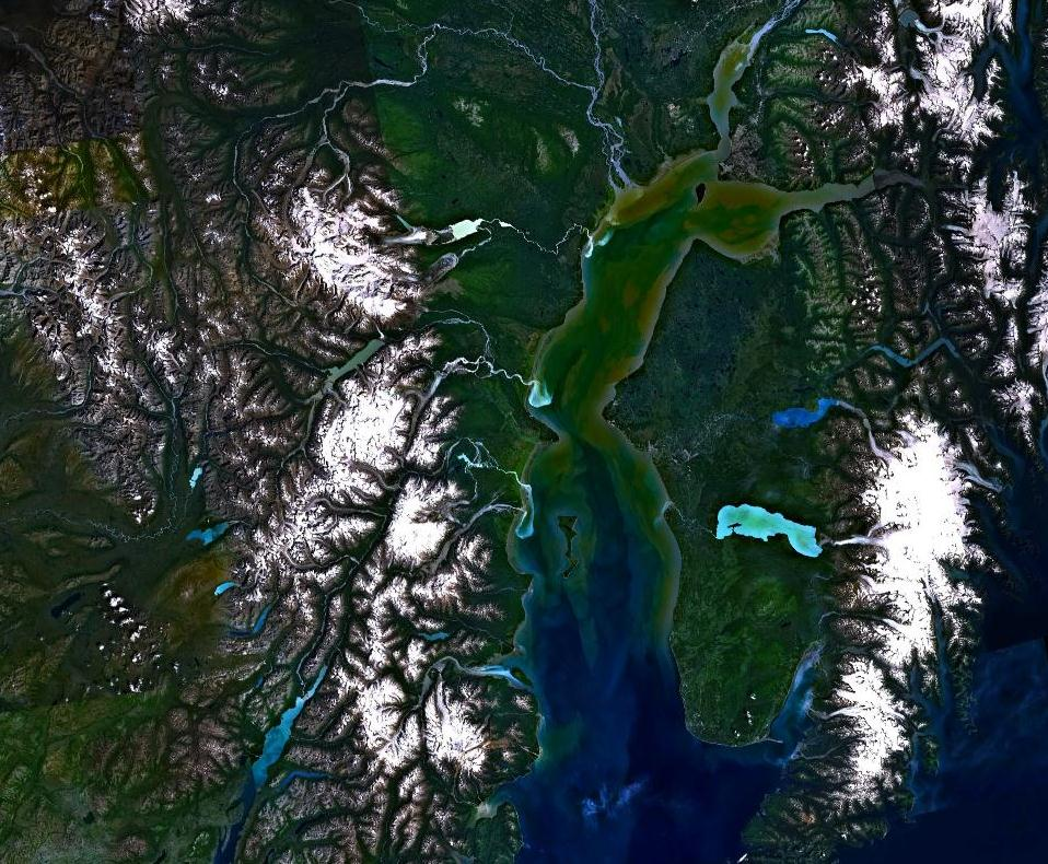 Satellital view of Cook Inlet, screenshot of World Wind 1.4